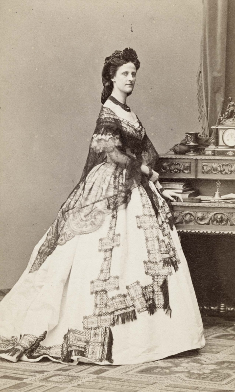 Princess Maria Annunziata of Bourbon-Two Sicilies.